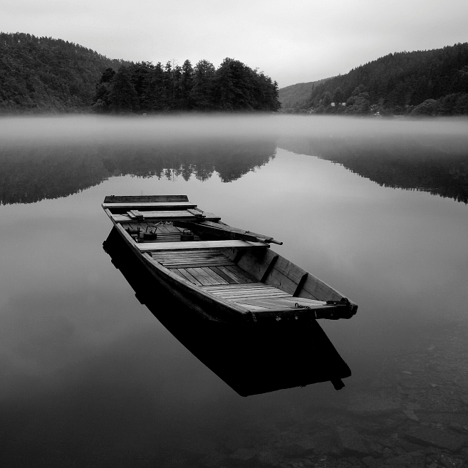 Vltava River, Czech Republic, Photo by Jiri Tondl